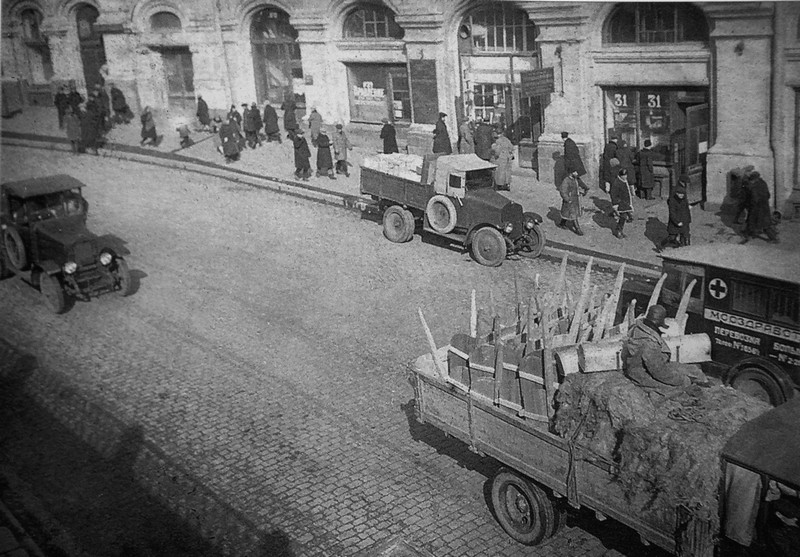 Motocars on Nikolsky street in Moscow.